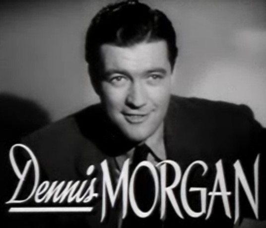 Cropped screenshot of Dennis Morgan from the trailer for the film The Hard Way